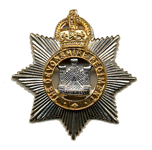 An original digital image of the Devonshire Regiment Badge.